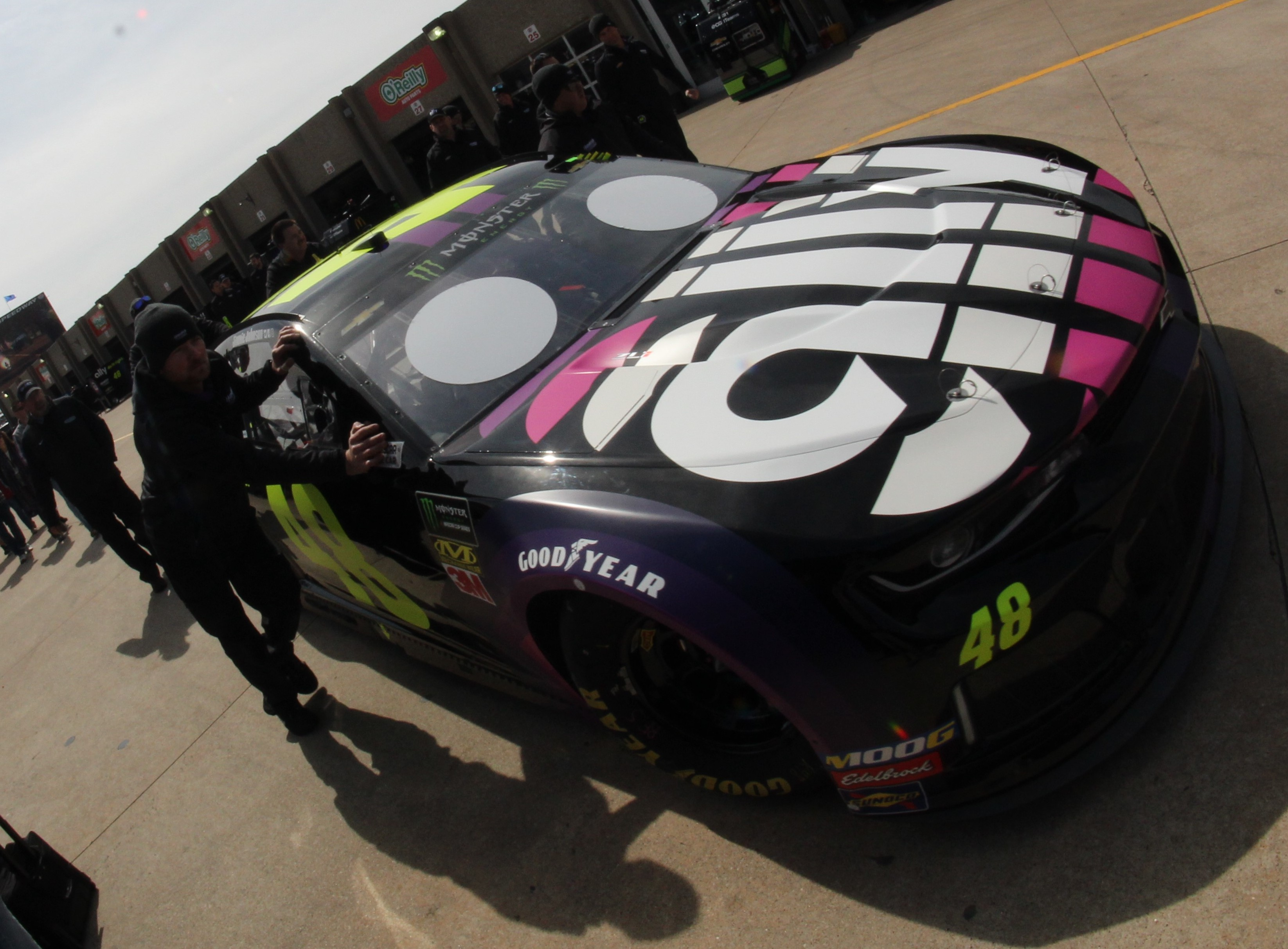 2019 O'Reilly Auto Parts 500